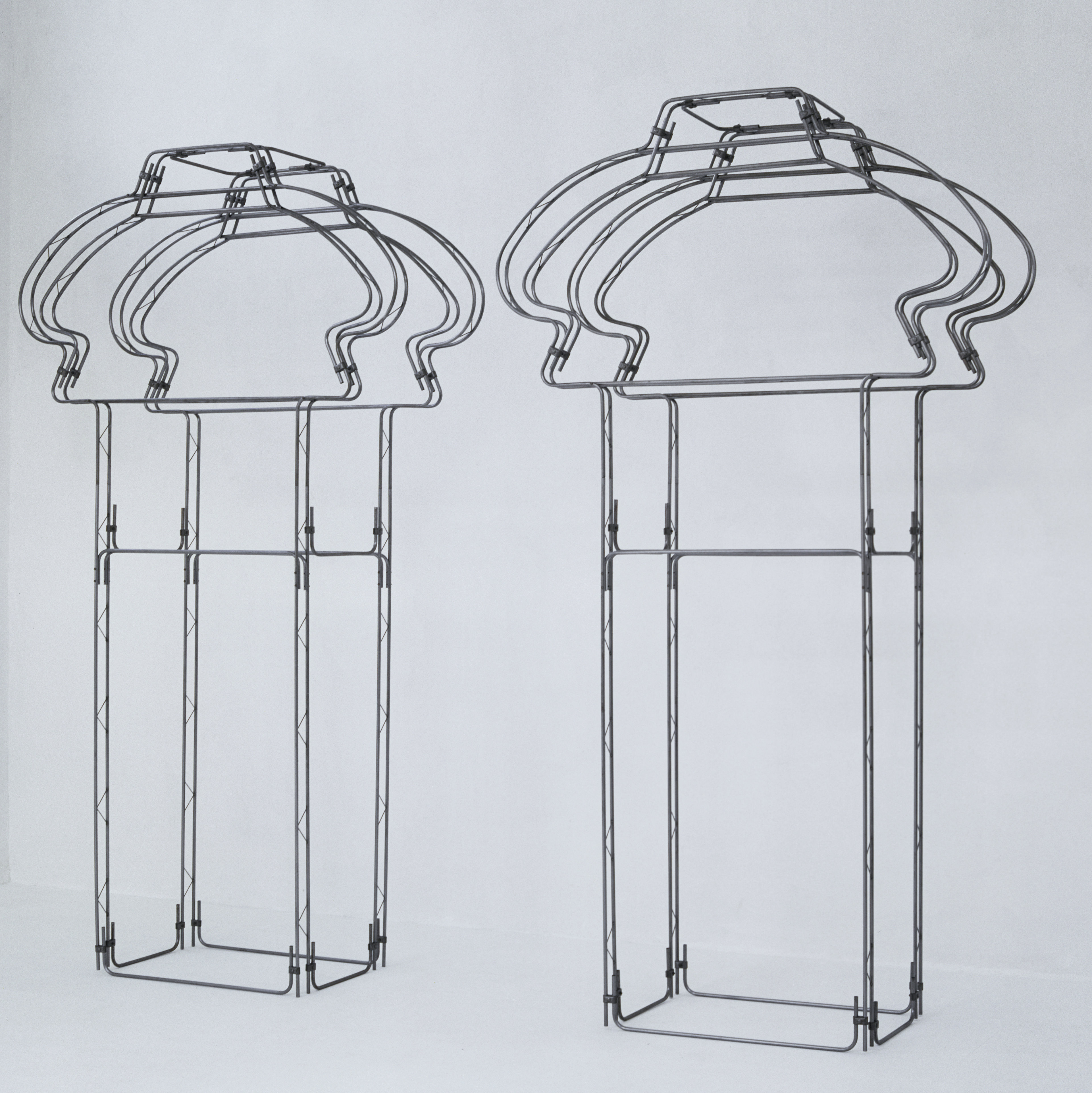 B - 731 R 1996/97, iron, installation, 2 parts (variable) of each 312 x 120 x 57 cm